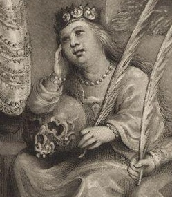 Princess Mary of England and Scotland (1605-1607), daughter of James VI and I.